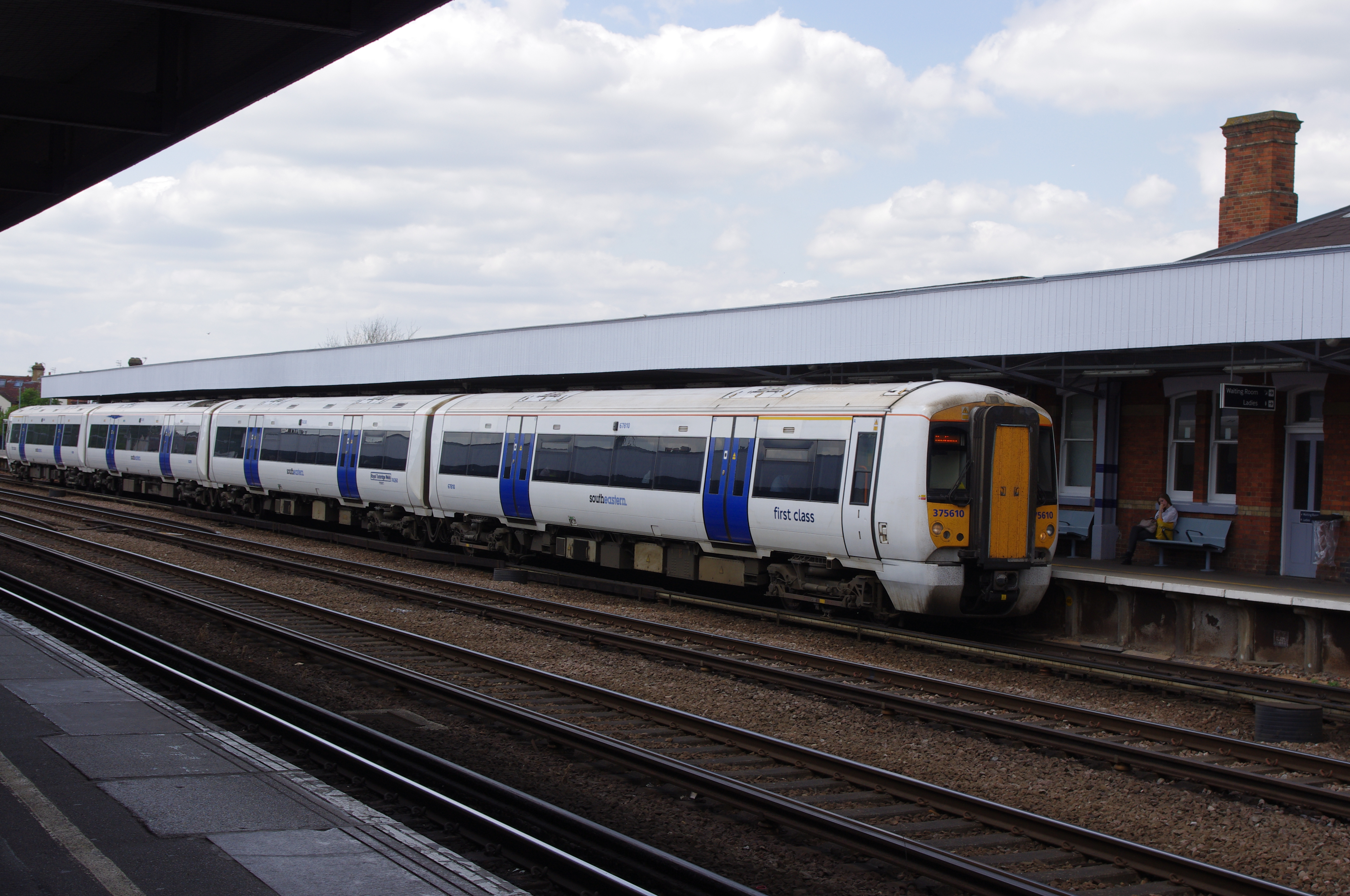 In a rare livery with blue doors and white body, 375610 "Royal Tunbridge Wells" stands at Tonbridge on a service to Hastings.